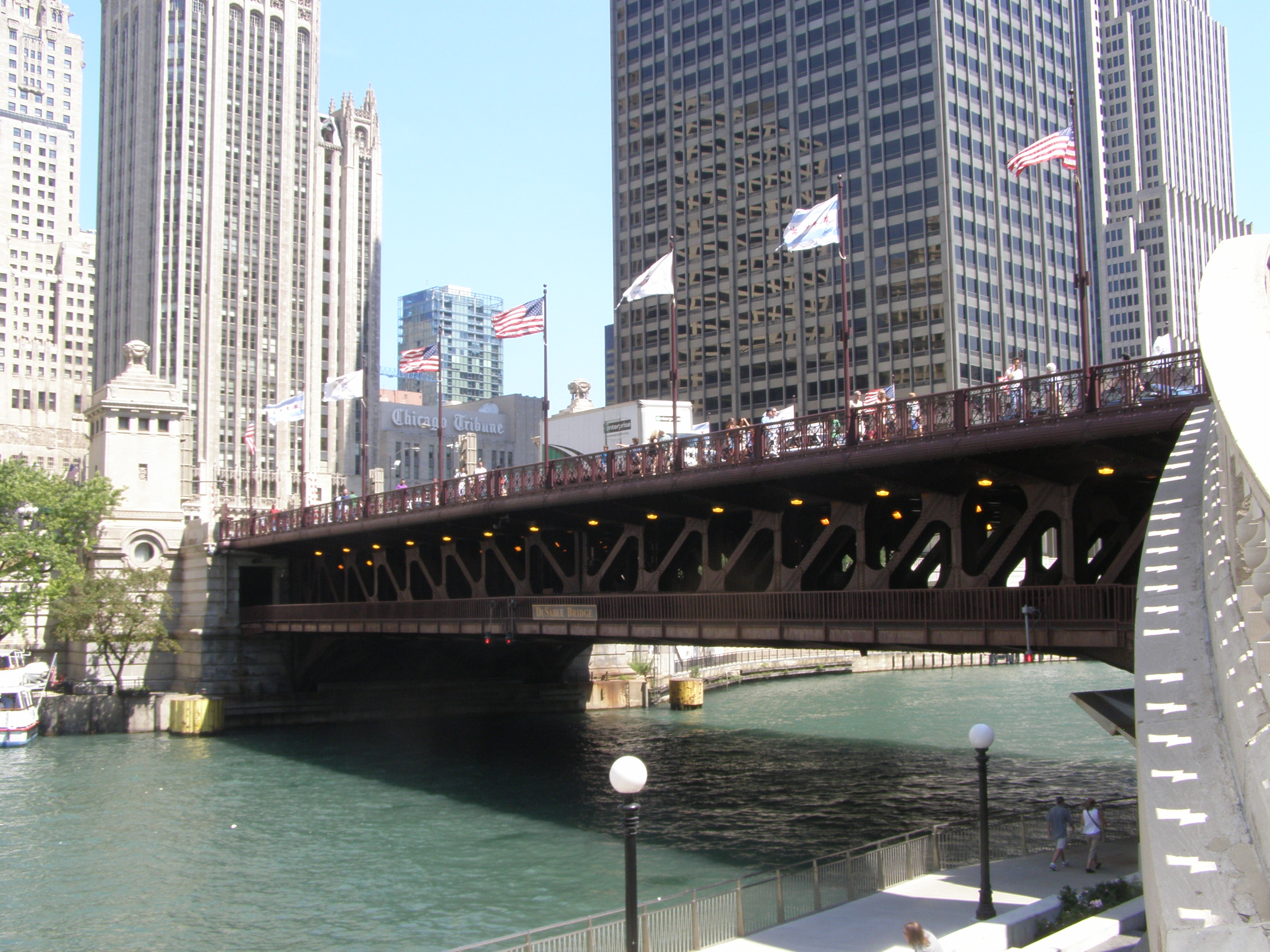 The Michigan Ave or DuSable Bridge over the Chicago River in Chicago, Illinois.